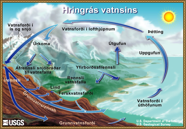 Water-Cycle Diagram (Icelandic)